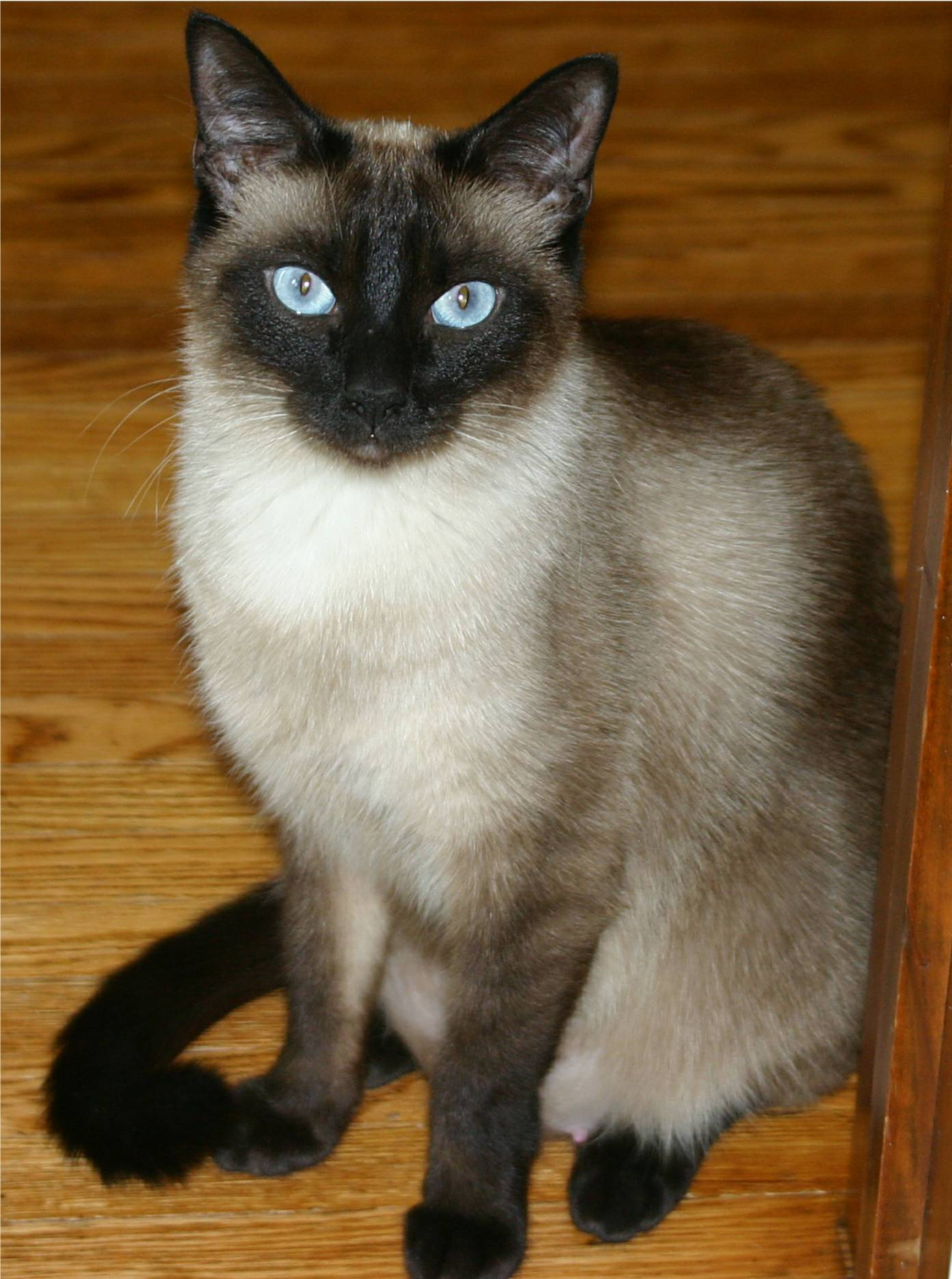 This picture was taken by Chantel Hurlow of a Traditional Siamese Female